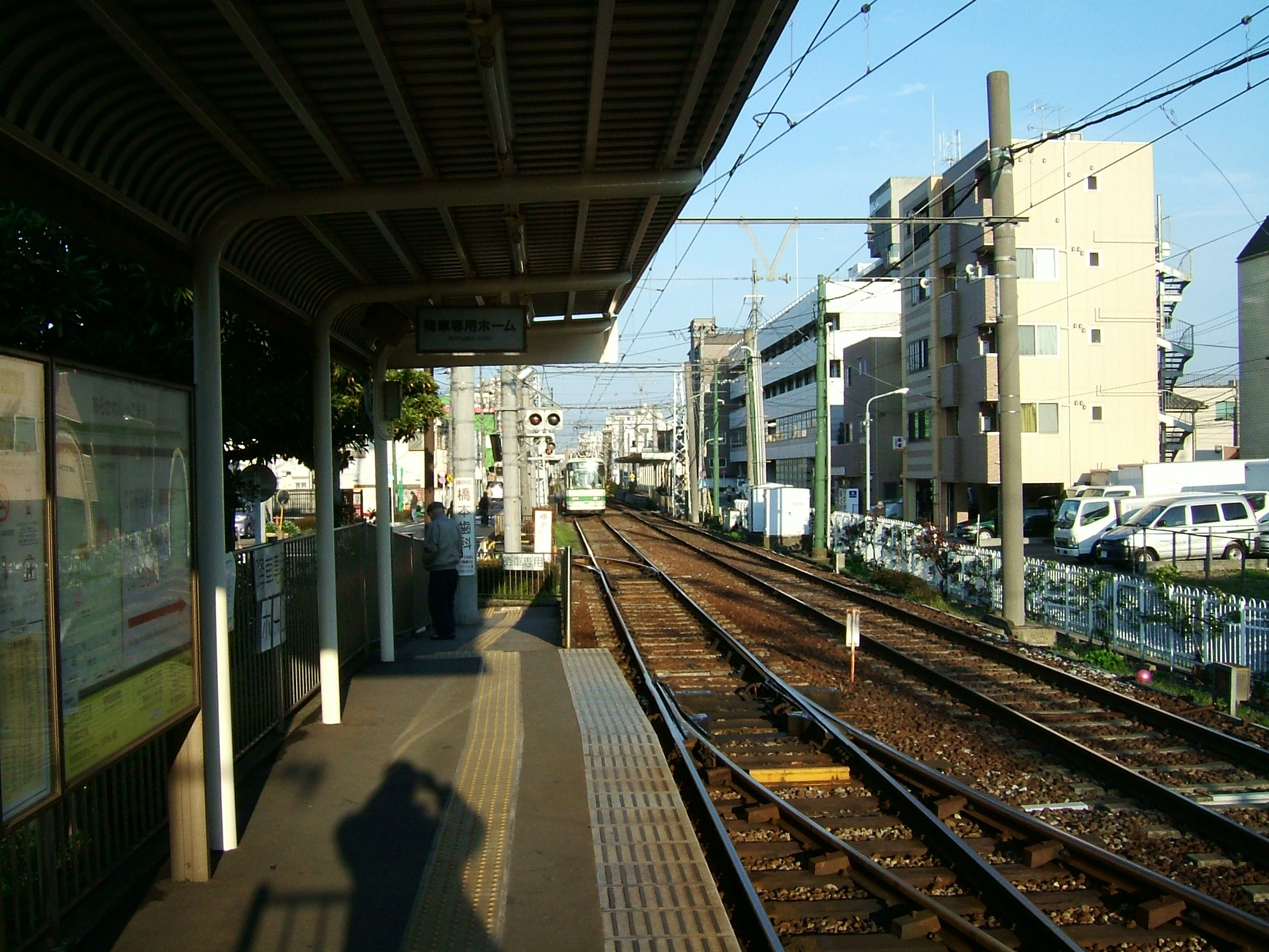 Arakawa shako-mae Station (Toden Arakawa Line)